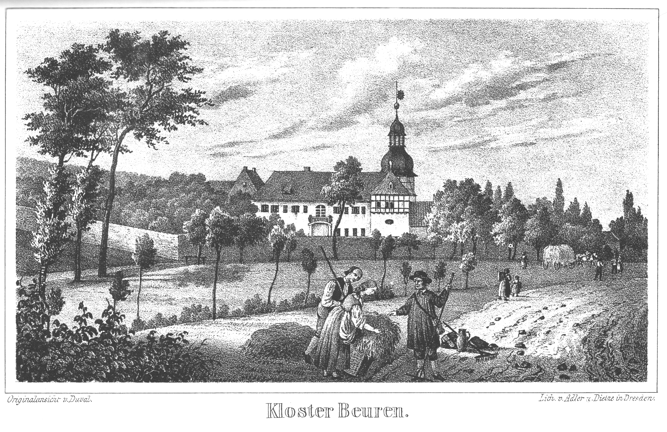 A view of the monastery Beuren in Eichsfeld